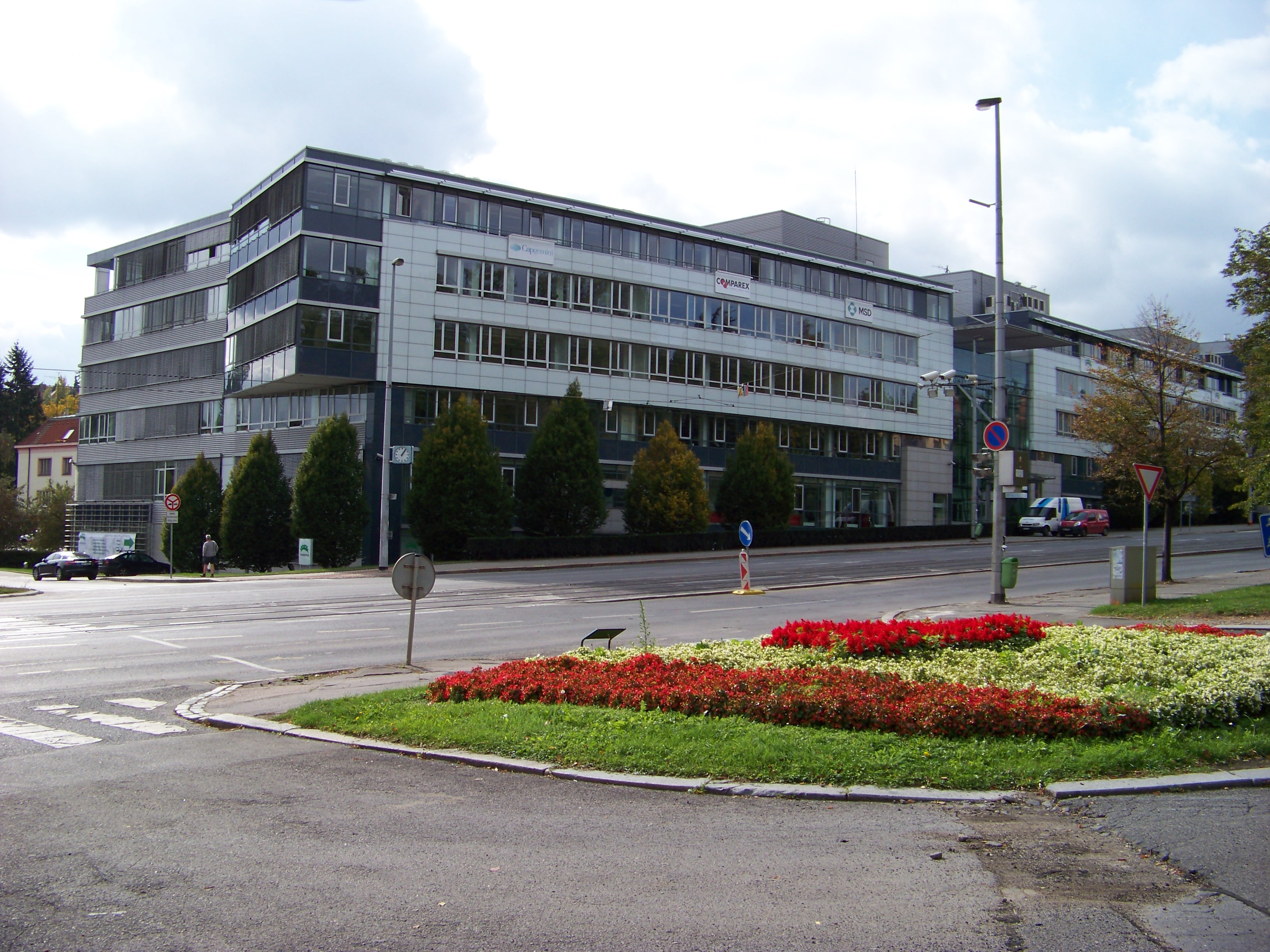 Prague-Dejvice, the Czech Republic. Evropská, Office Park Hadovka. - OpenStreetMap(Info)